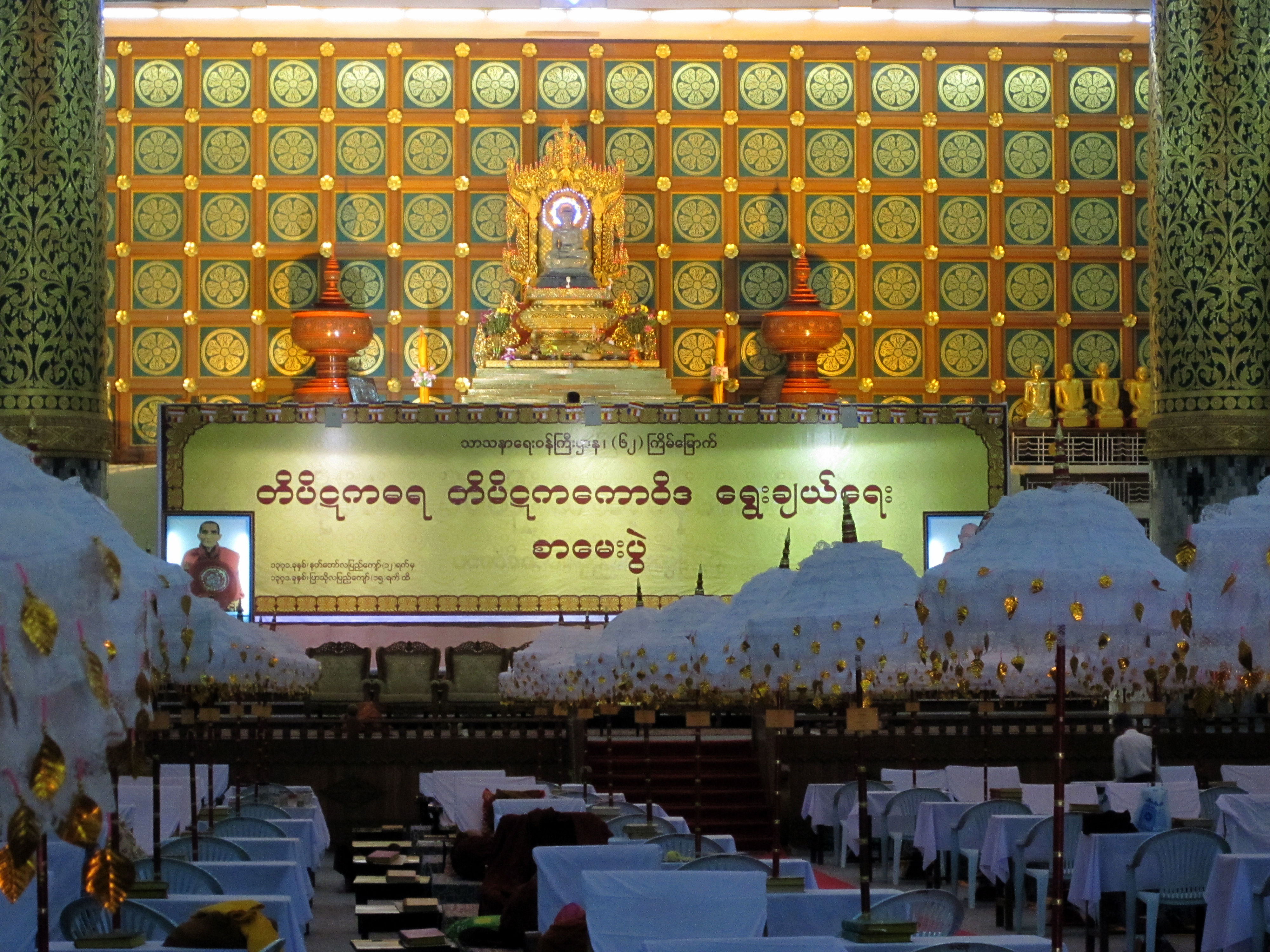 62nd Annual Tipitakadhara Tipitakakovida Examinations at the Mahapasana Guha Cave, Yangon held by the Ministry of Religious Affairs in December 2009 (ME 1371)မြန်မာဘာသာ: တိပိဋကဓရ တိပိဋကကောဝိဒ ရွေးချယ်ရေး စာမေးပွဲ